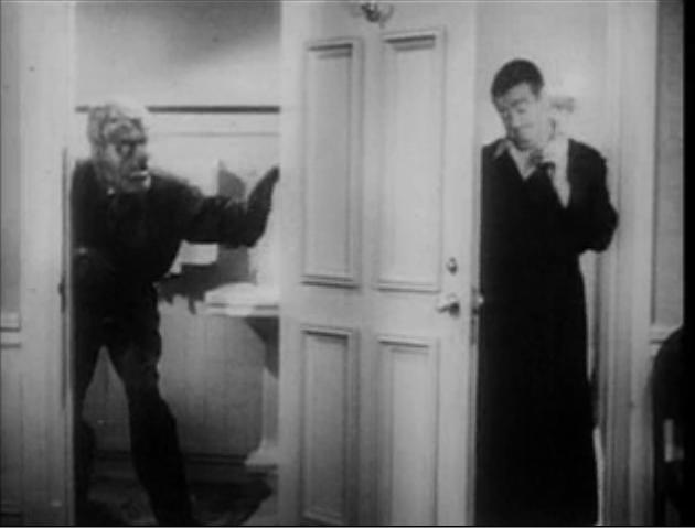 A screenshot from Abbott and Costello Meet Frankenstein